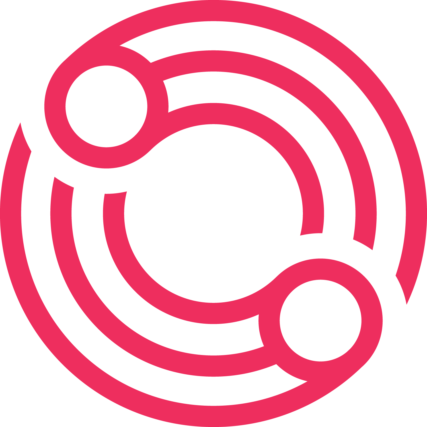 Logo for EPCOT's PLAY! Pavilion